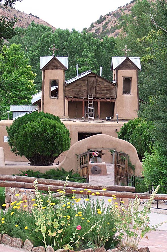 This most awesome photo of the Santuario at Chimayo NM was taken in July 2007 by Andrea Stawitcke, who has emailed her agreement to license it under cc sharalike/attribution license.